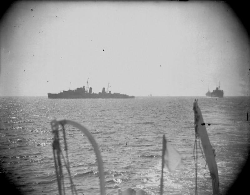 Operation Pedestal, August 1942 12 August: Air Attacks: The cruiser HMS CHARYBDIS, part of Admiral Syfret's Force Z, leaving the convoy to return to Gibraltar.